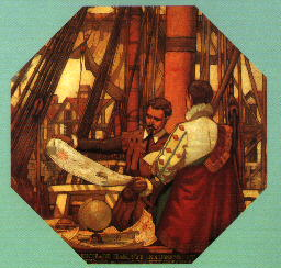 An octagonal painting entitled "Richard Hakluyt Recording the Voyages of Elizabethan Sailors", originally in the Second Class Library and Writing Room of the RMS Queen Mary